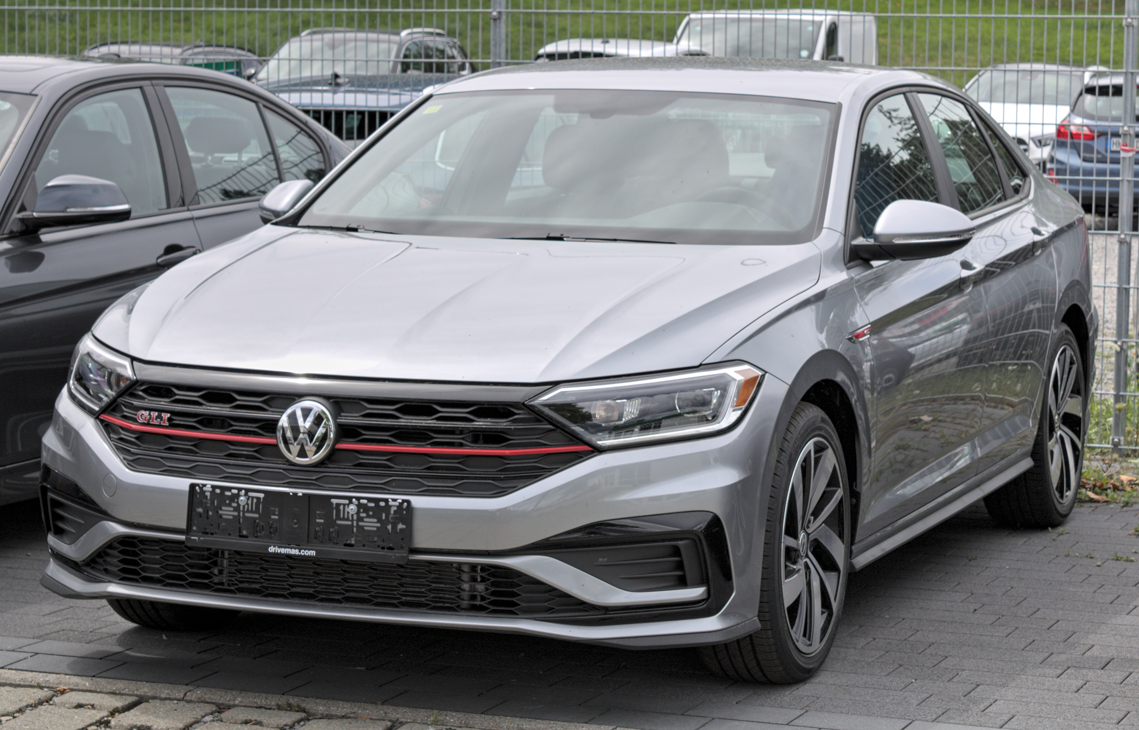 Volkswagen_Jetta_VII_GLI in Stuttgart-Vaihingen